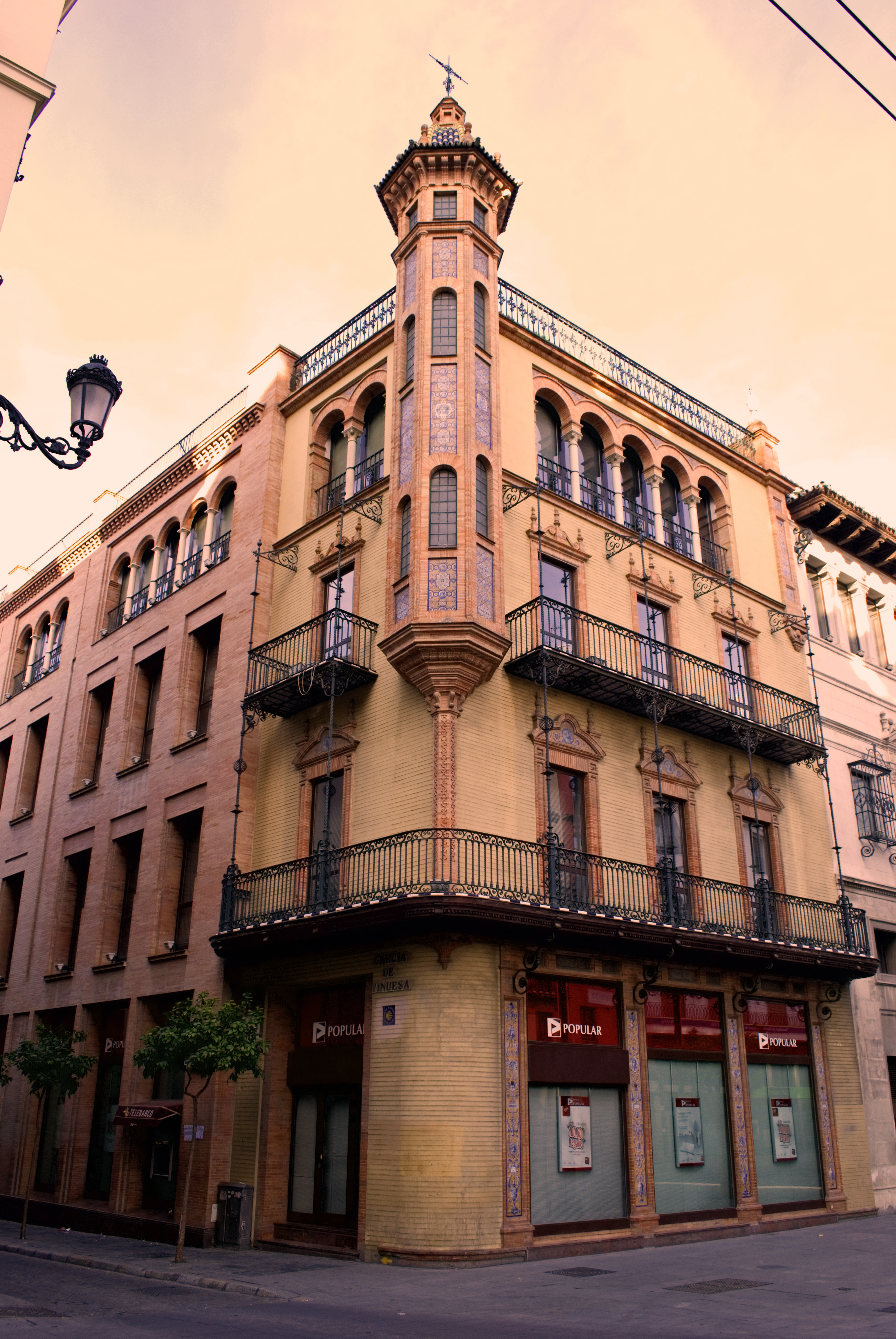 Seville.